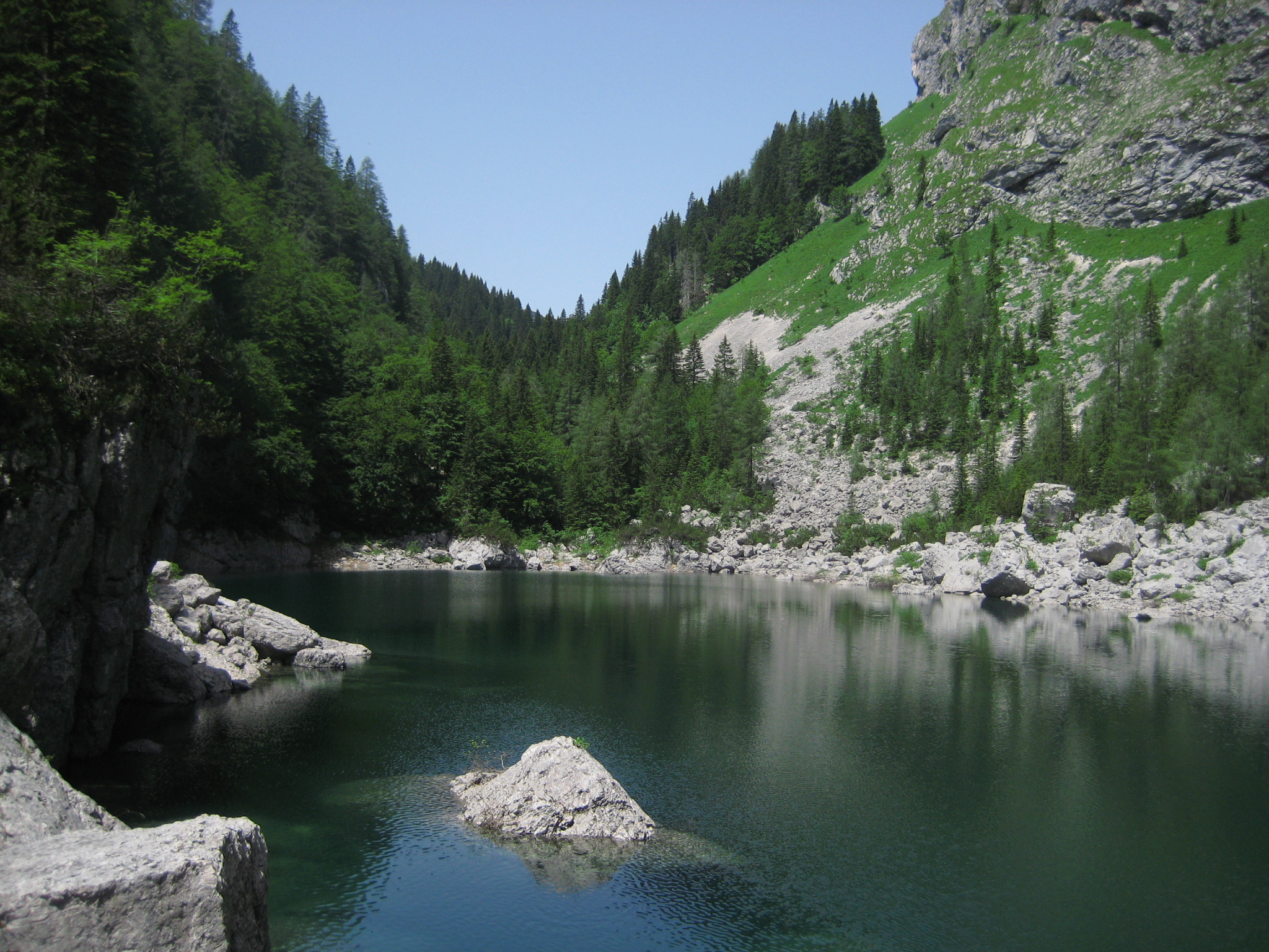 Črno Jezero, Triglav national park, Slovenia